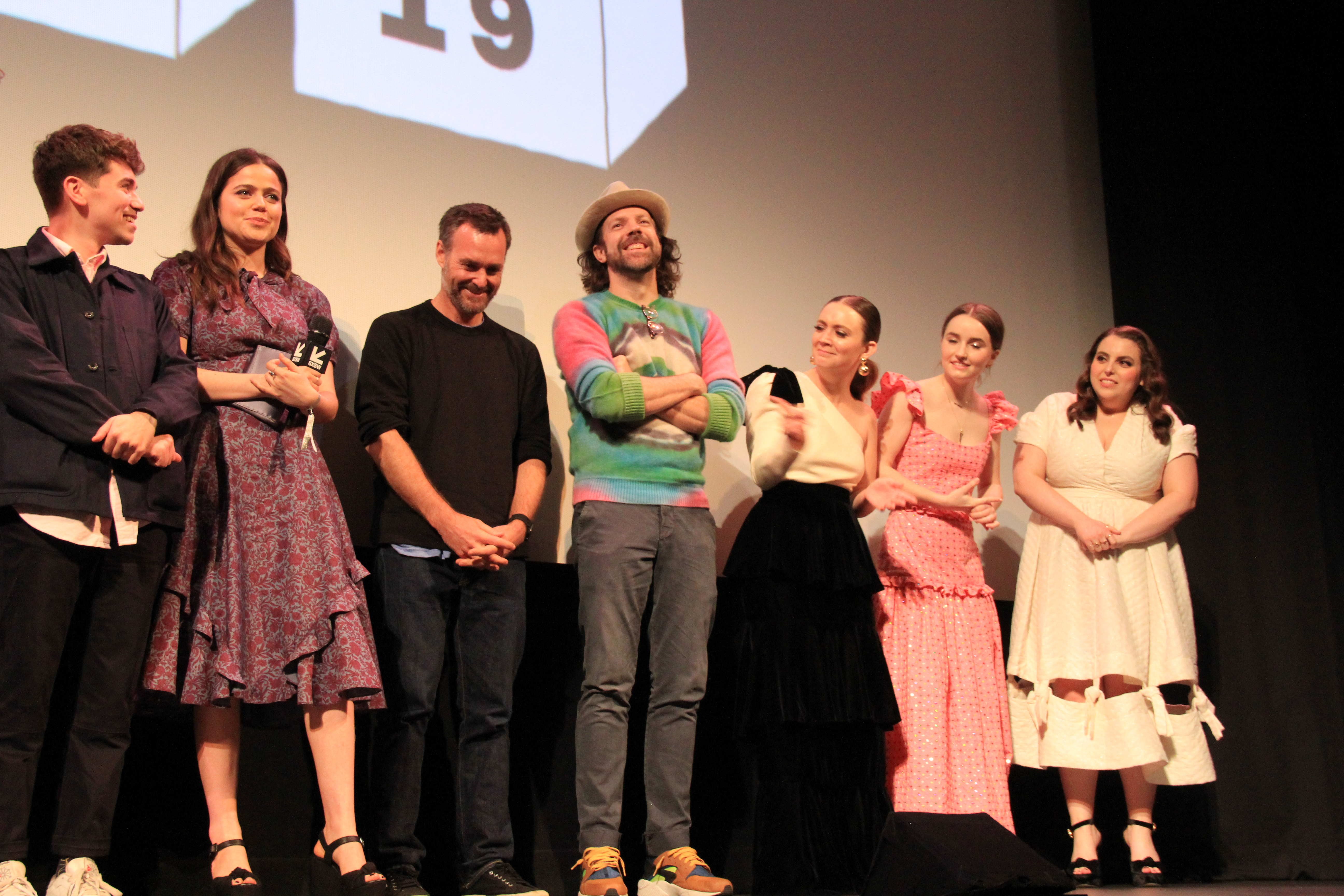 South by Southwest 2019